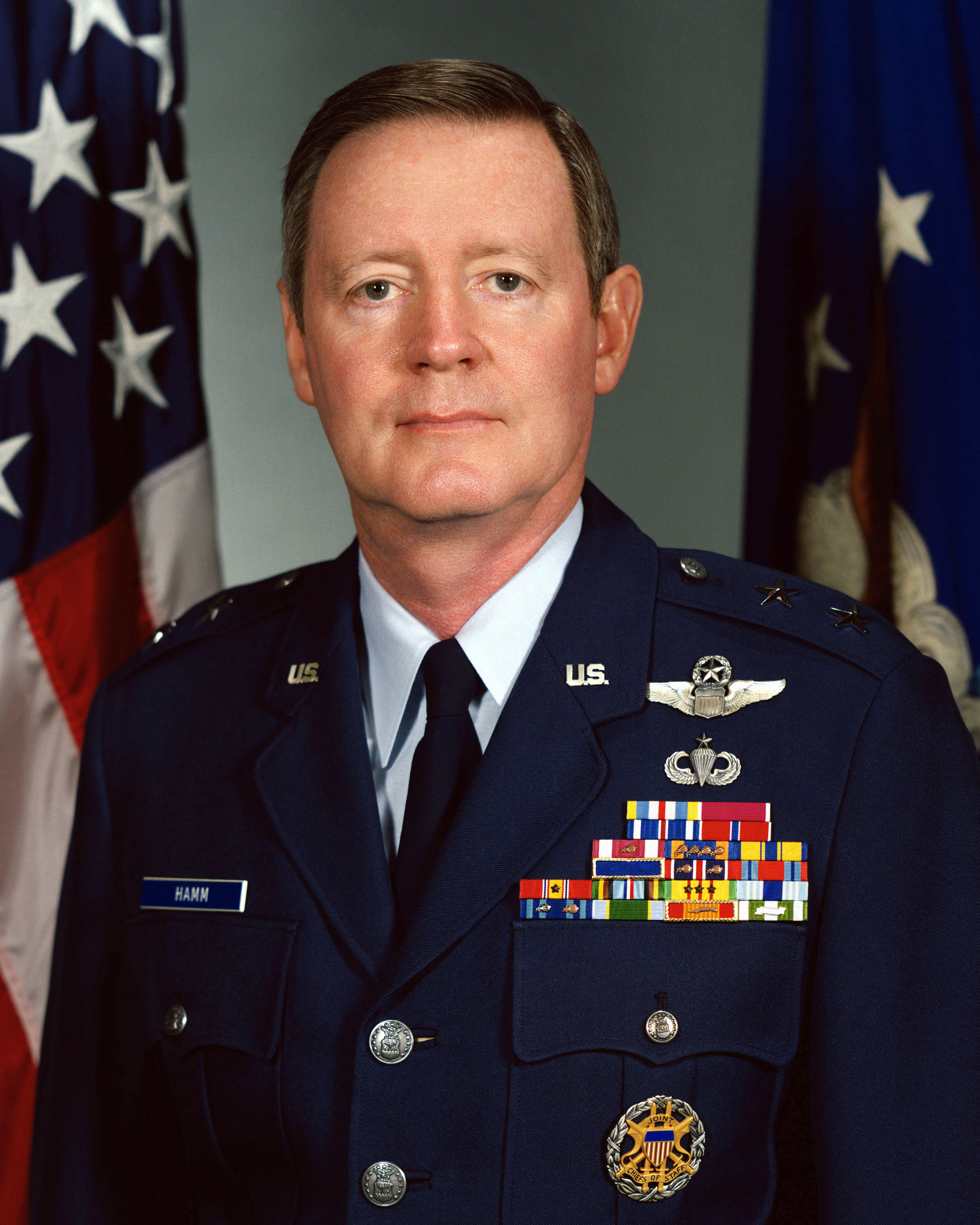 Major General Charles R. Hamm, USAF, official portrait.